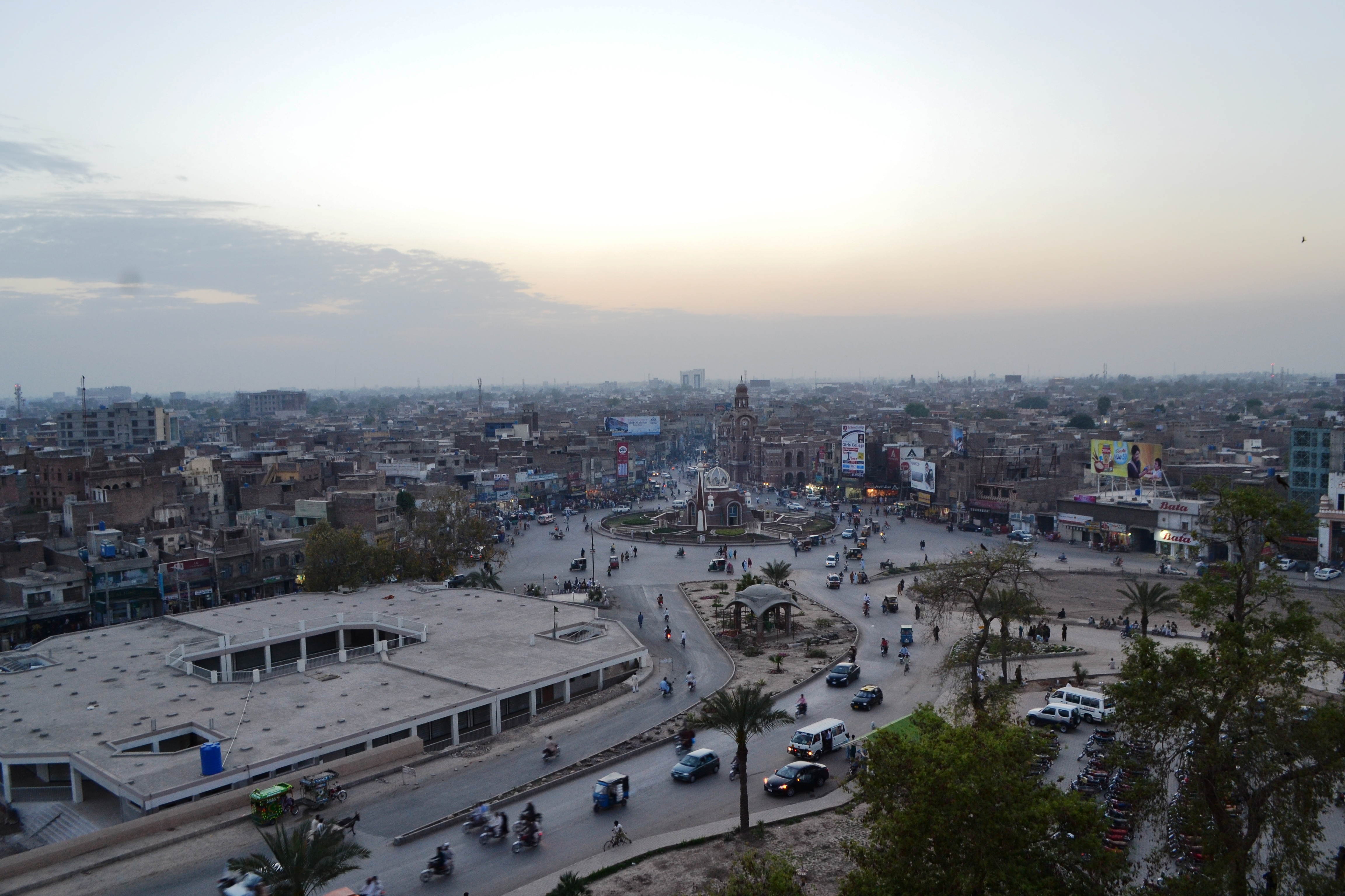 Aerial view of Multan Ghanta Ghar chawk